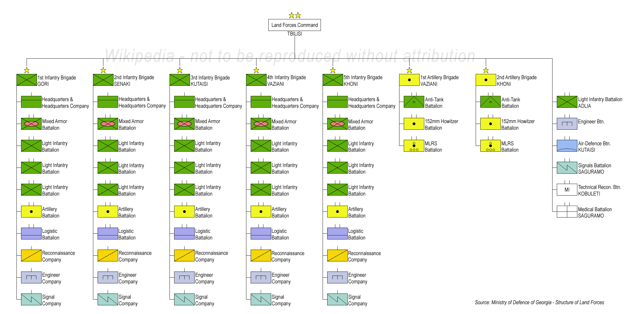 Organisation of the Land Forces of Georgia.